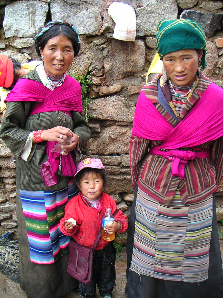 Pilgrims or locals at Drepung Monastery, wearing U-Tsang chubas.